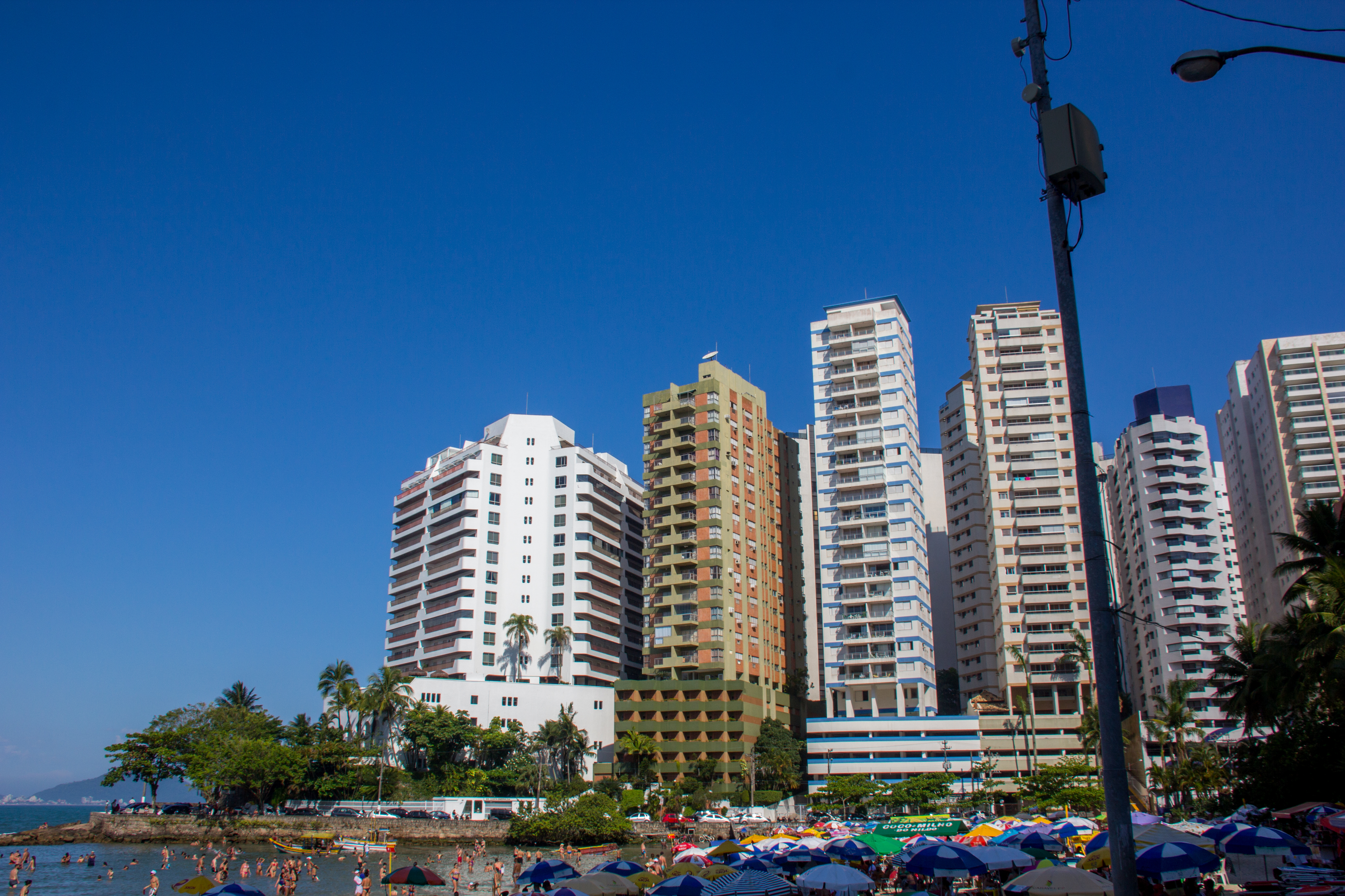 Santos, São Paulo, Brazil